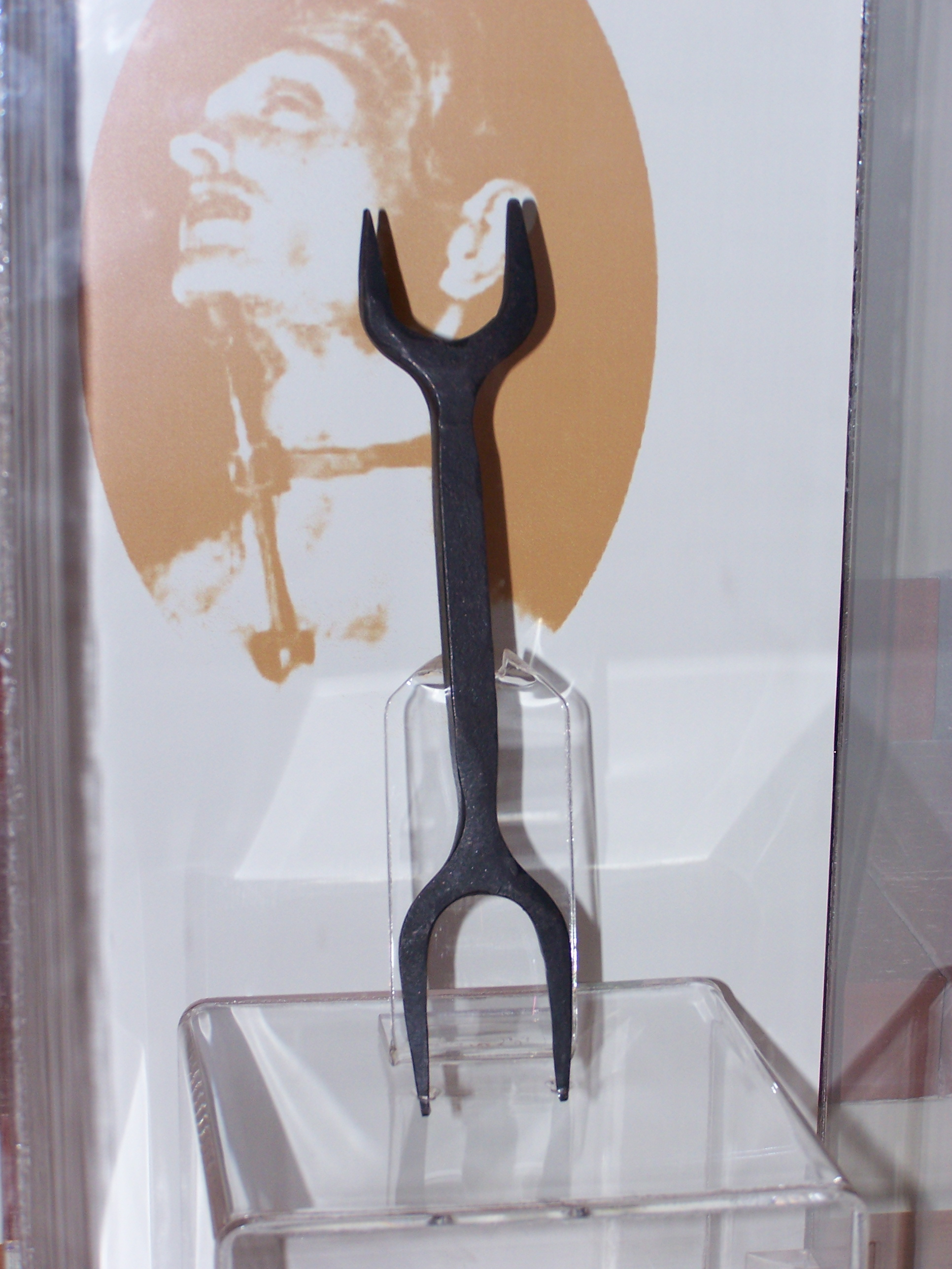 The Heretic's Fork. Torture museum in Lubuska Land Museum in Zielona Góra.